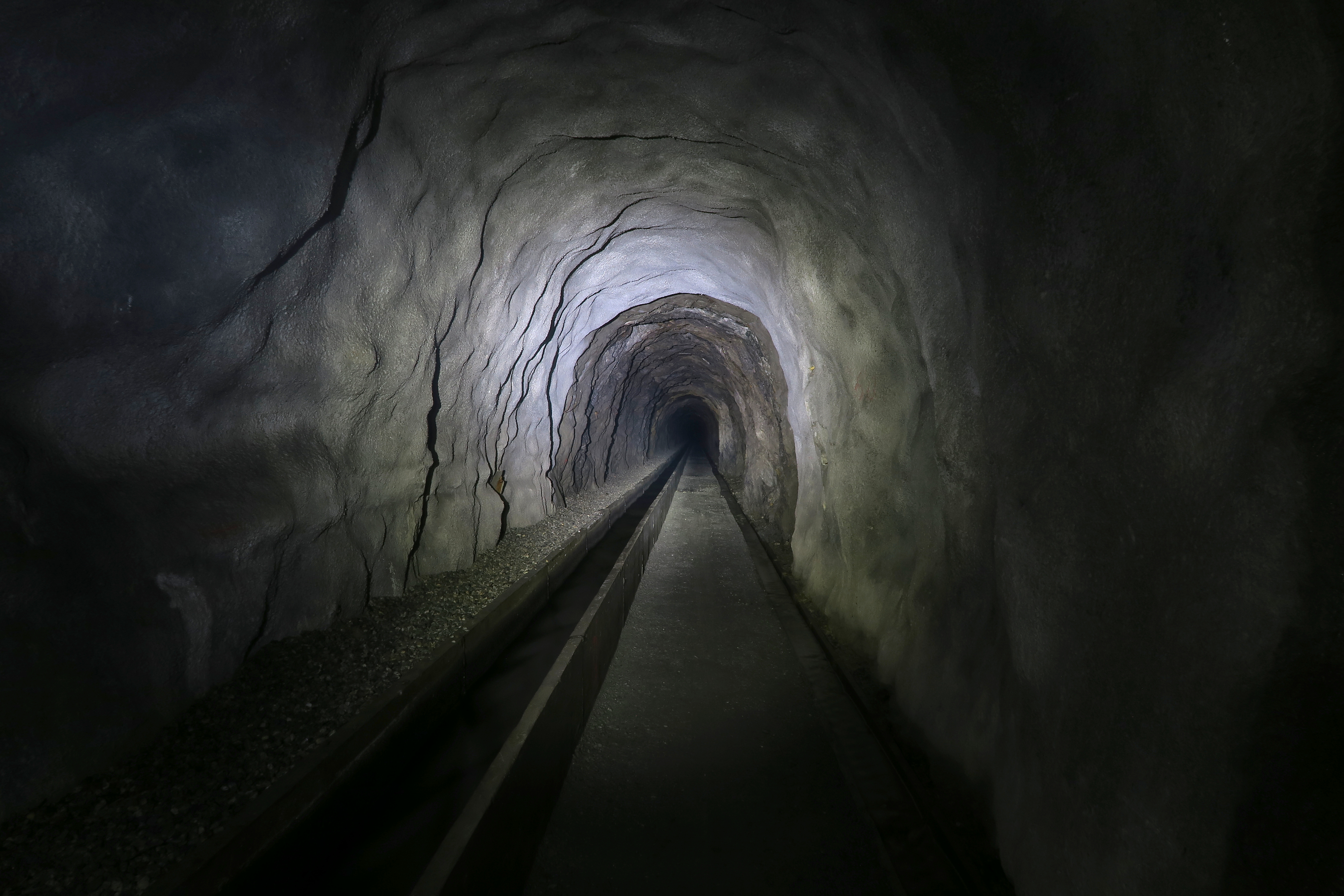 Forwards to the north it is still pitch-black. I have a tripod and take photos with bulb exposure, but my lights do not reach an end. Perhaps not the best for people with claustrophobia, such a trip into the unknown. And it's quite cold in here. The temperature is five degrees Celsius. The batteries of the flashlights are sooner low than usual and my fingers feel cold. Switzerland, April 10, 2016. (12/23)